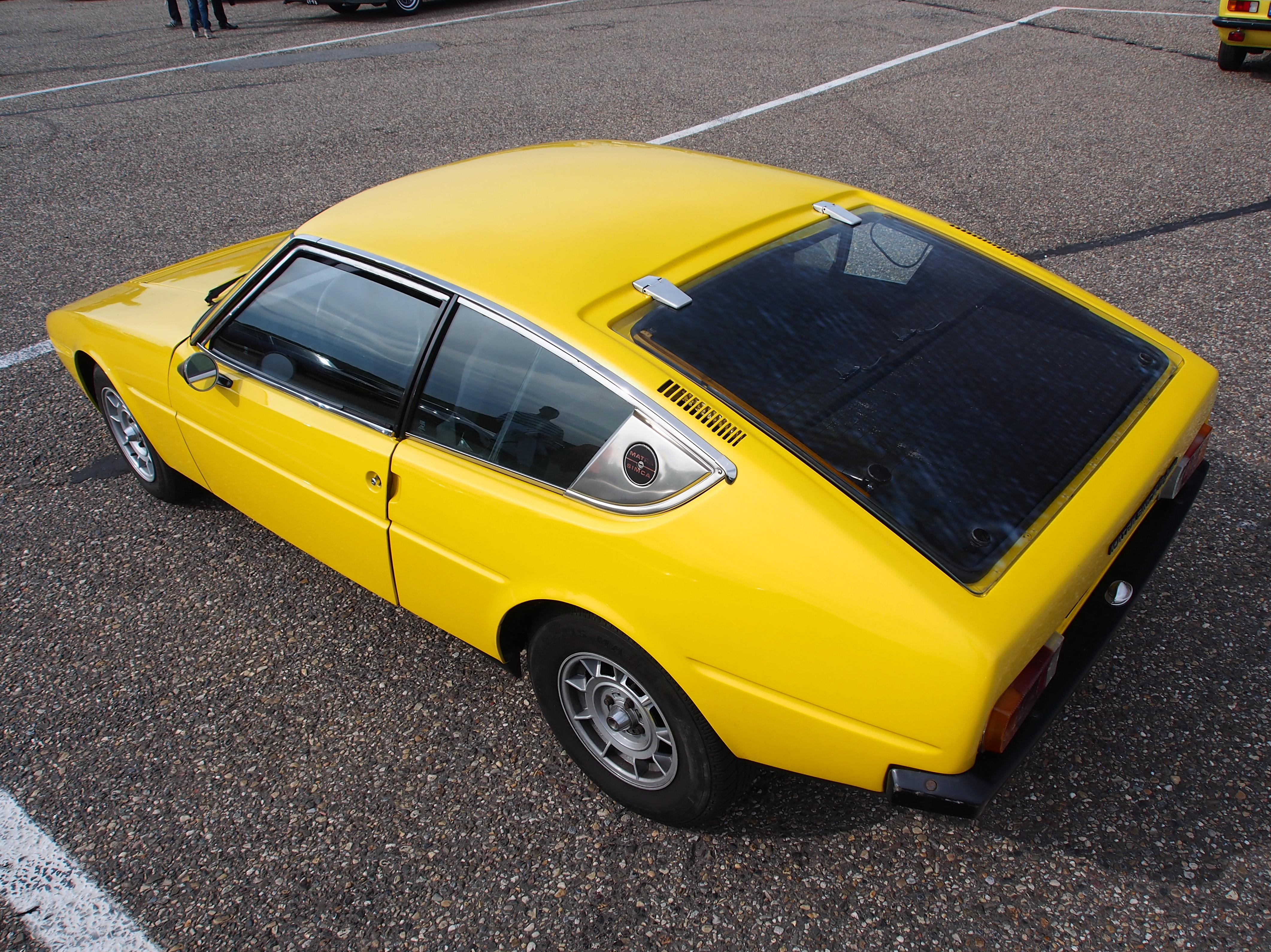 Photographed at the Nationaal Oldtimer Festival Zandvoort 2014, The Netherlands.